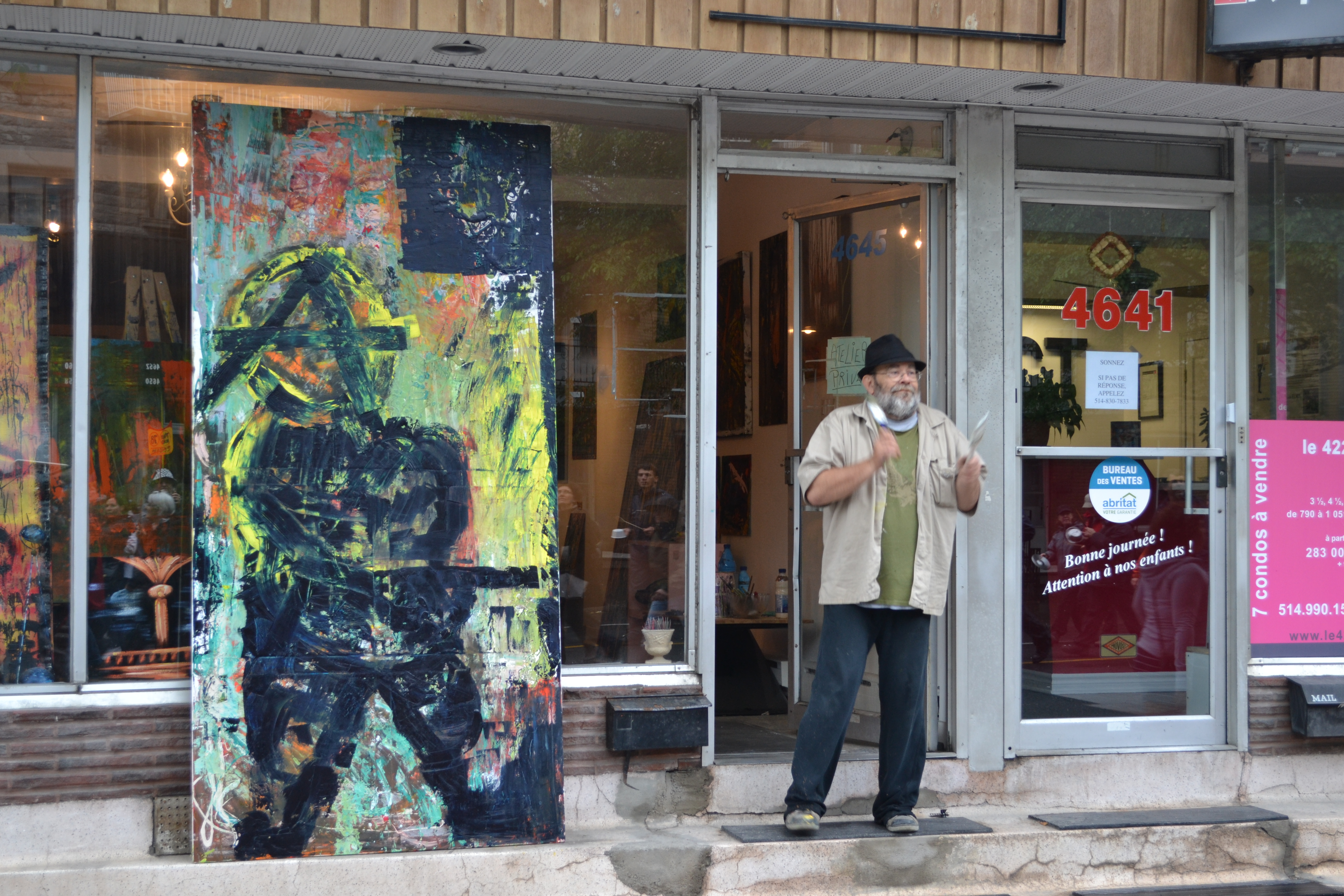 Student protests in Montreal (Quebec) on June 2, 2012.